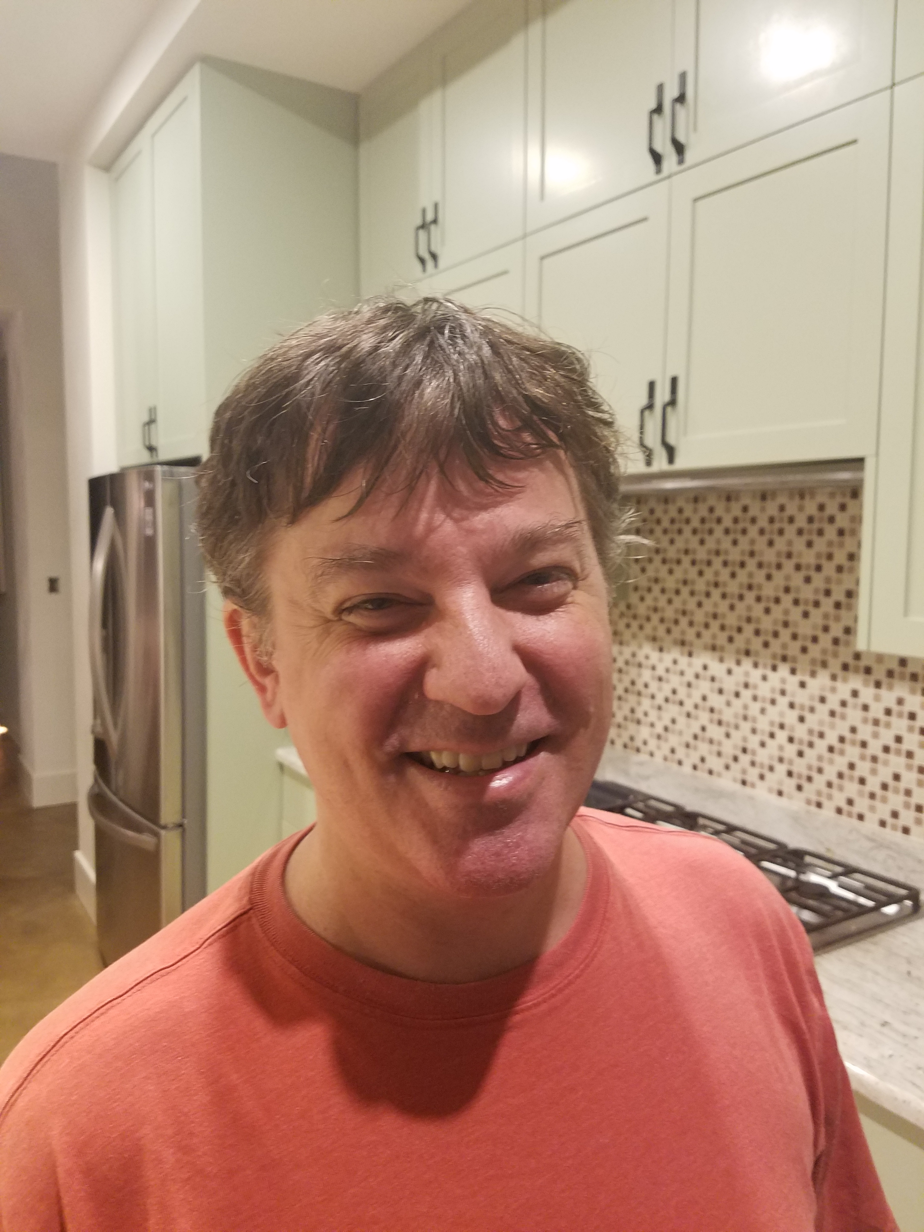 Greg Stein taken at his home on 2016-10-07